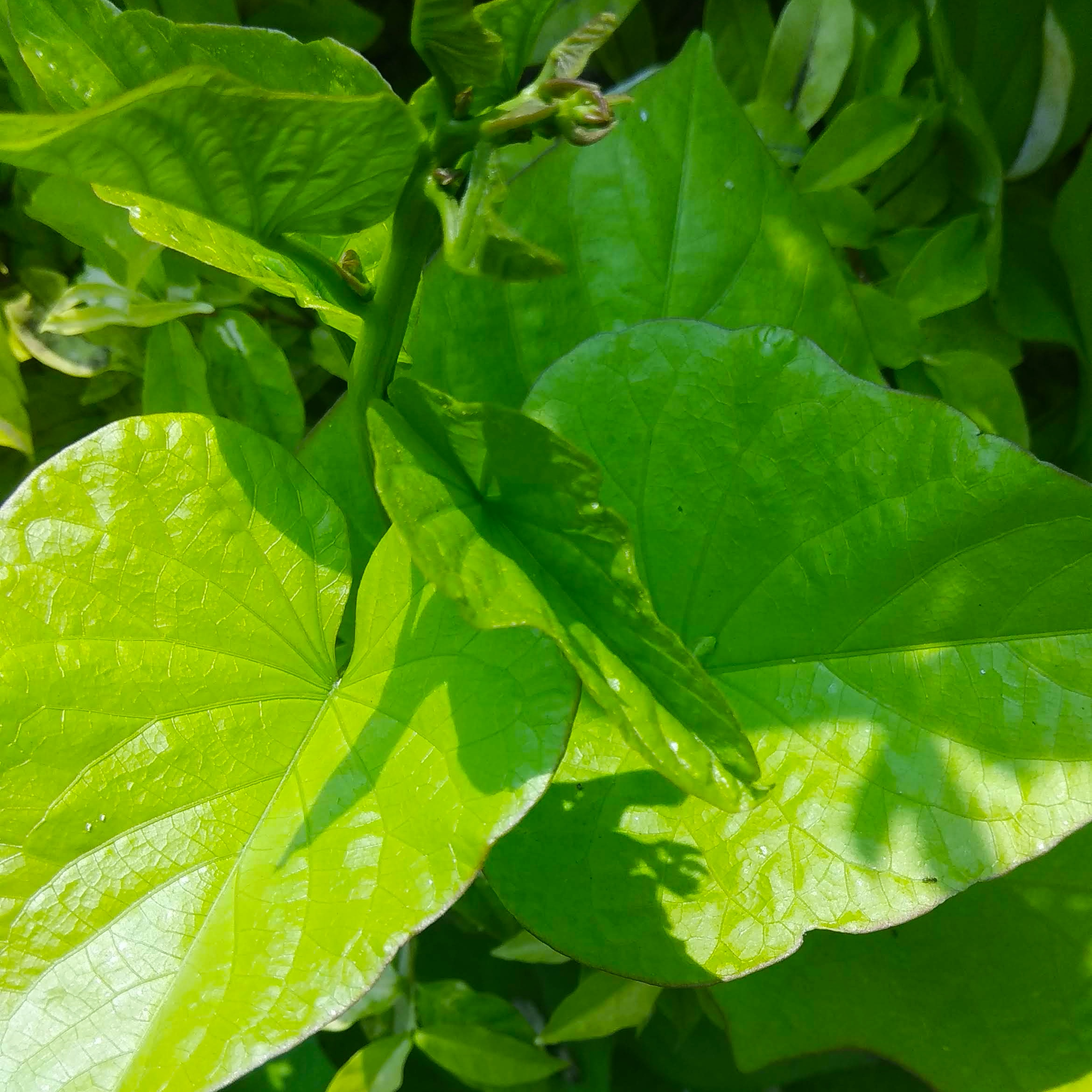 Ipomoea batatas margarita